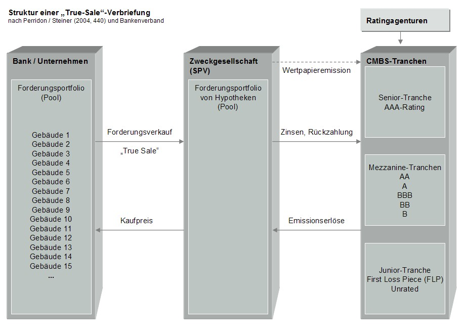 Structure of a True-Sale Securitization in Commercial Mortgage Backed Securities (CMBS )